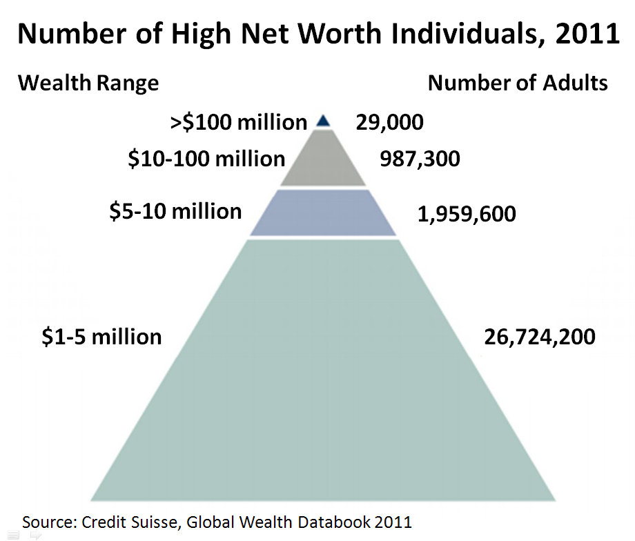 Number of high net worth individuals in the world, 2011.